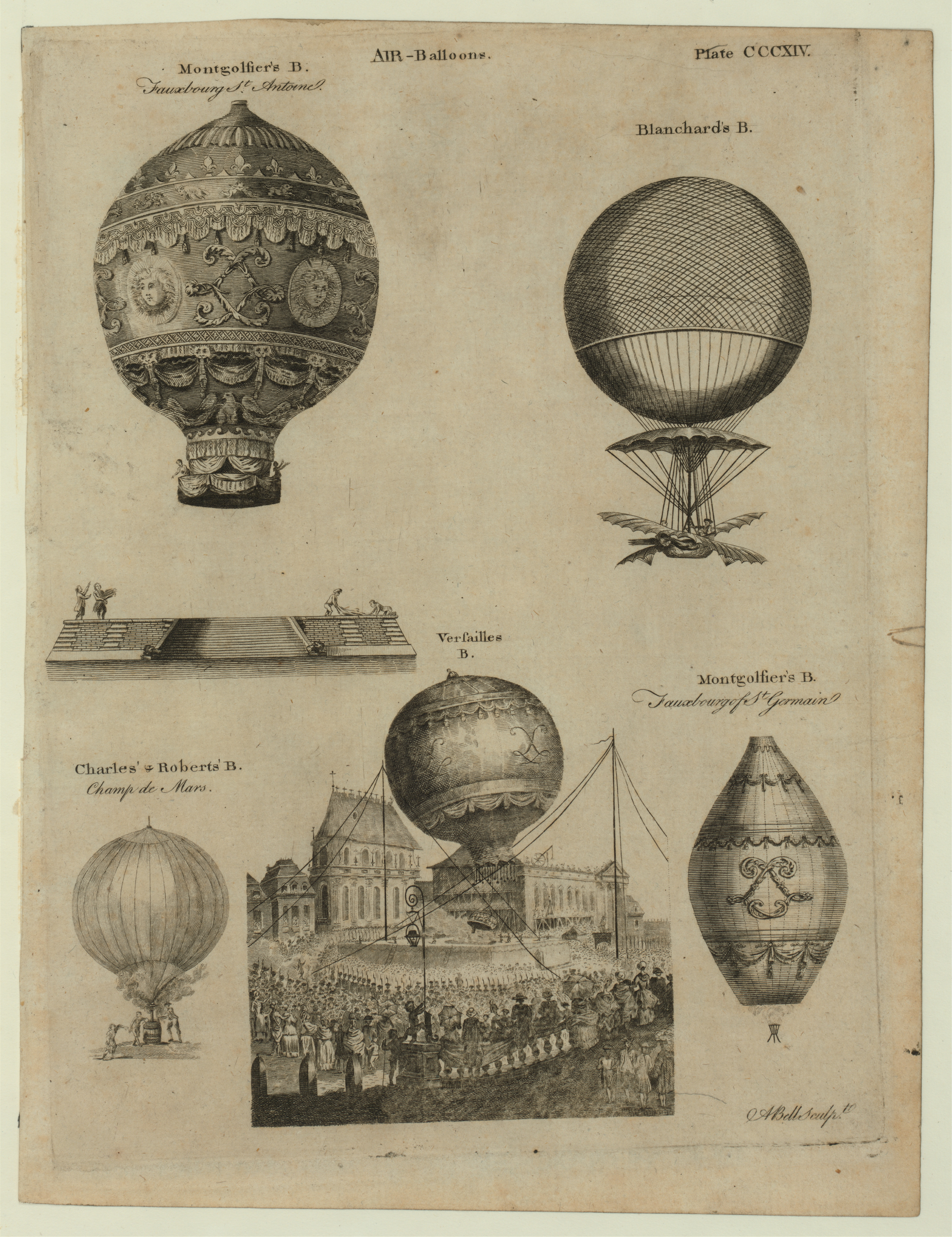 Book illustration shows five early balloon ascensions in France: two Montgolfier balloons (Fauxbourg St. Antoine and St. Germain); a 1784 balloon of Jean-Pierre Blanchard; and a Charles and Robert balloon being inflated at Champs-de-Mar and ascending at Versailles on September 19, 1783. (Source: A.G. Renstrom, LC staff, 1981-82).